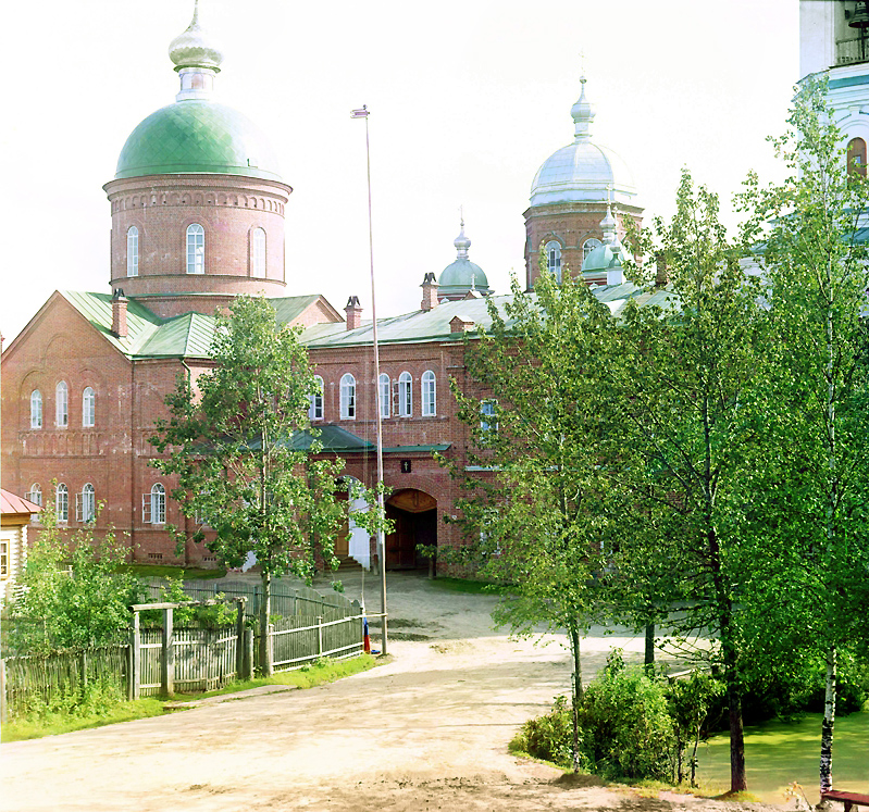 Leushino Monastery near Mologa, submerged underneath the waters of the Rybinsk Reservoir since the 1940s. This colour photograph by Sergei Mikhailovich Prokudin-Gorskii was taken in 1911.